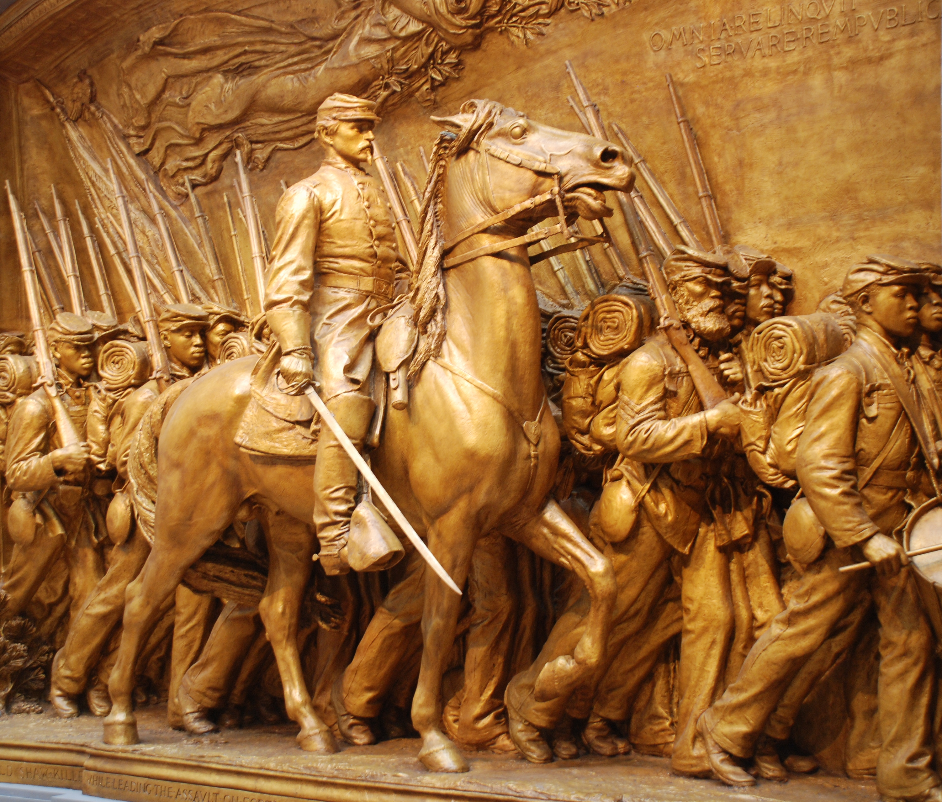 Memorial to Robert Gould Shaw and the Massachusetts Fifty-Fourth Regiment, 1884 - 1897. Augustus Saint-Gaudens (1848 - 1907). Plaster original,[1] National Gallery of Art, Washington, D.C..